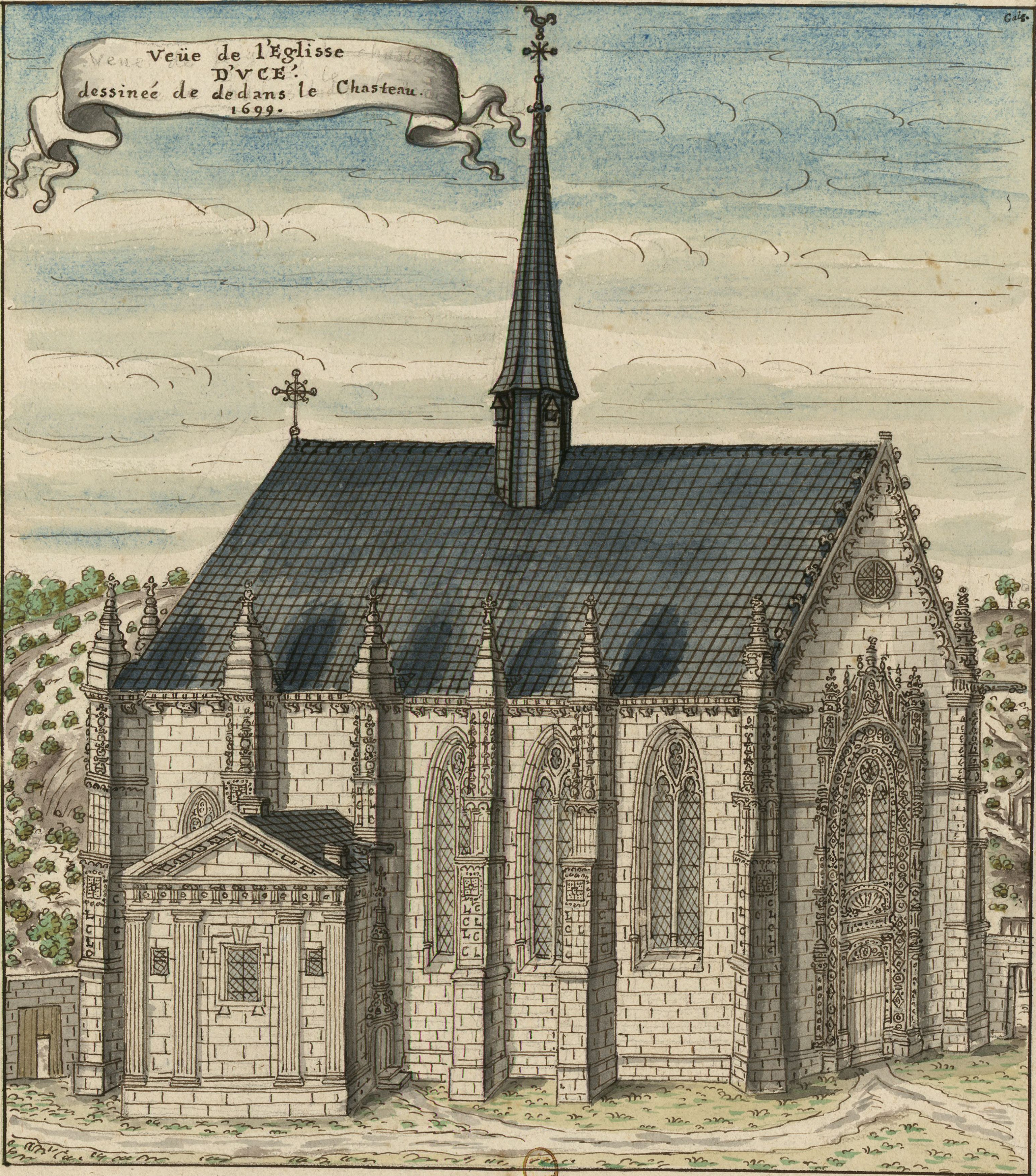 Colored drawing of the chapel of the Château d'Ussé, Indre-et-Loire, France